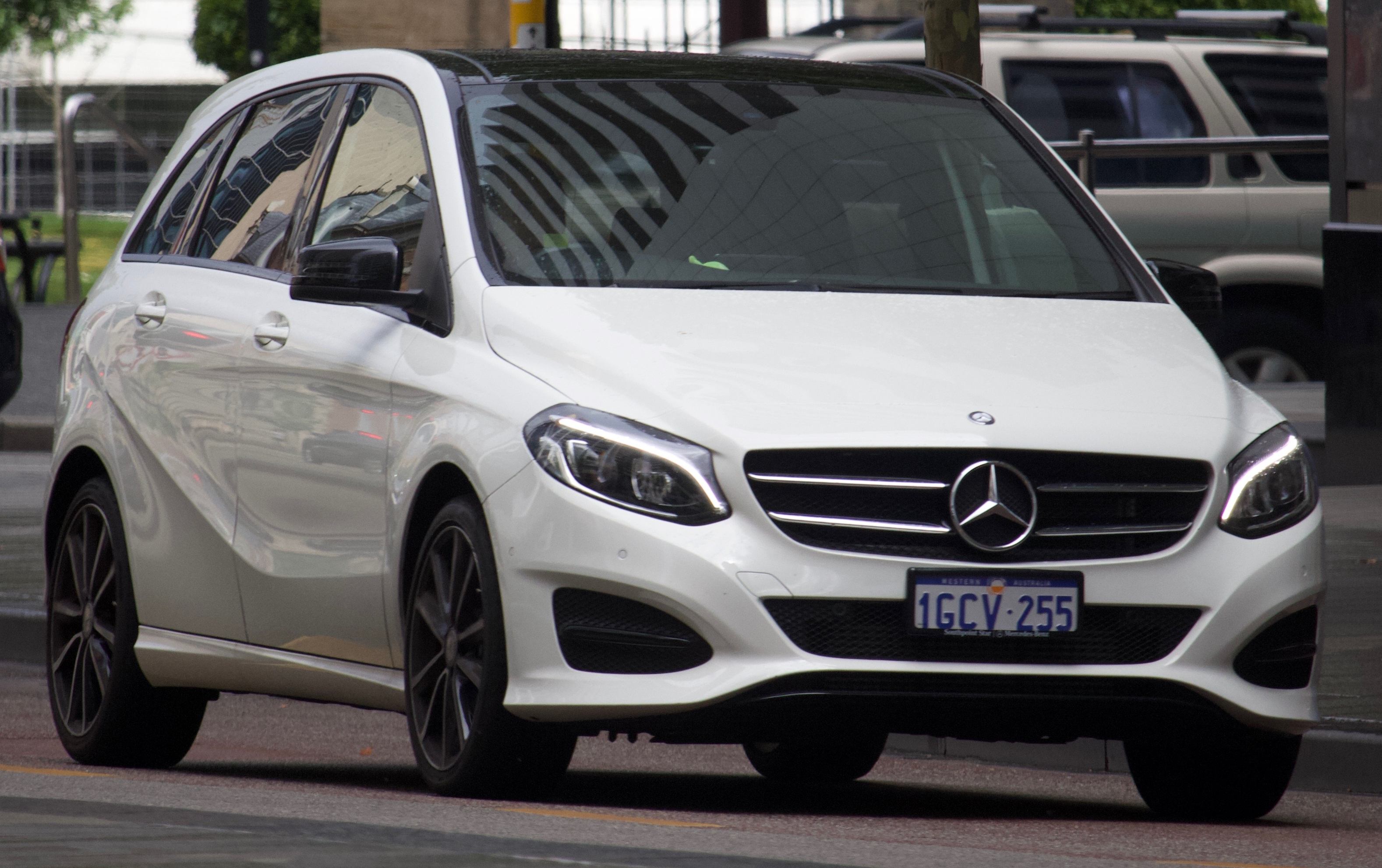 2016 Mercedes-Benz B 200 (W 246) hatchback. Photographed in Perth, Western Australia, Australia.